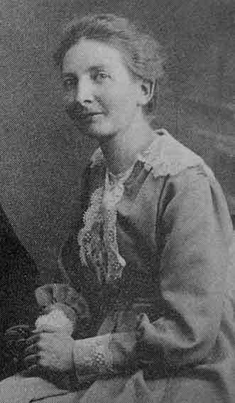 Portrait of Hélène Monastier(1882-1976)